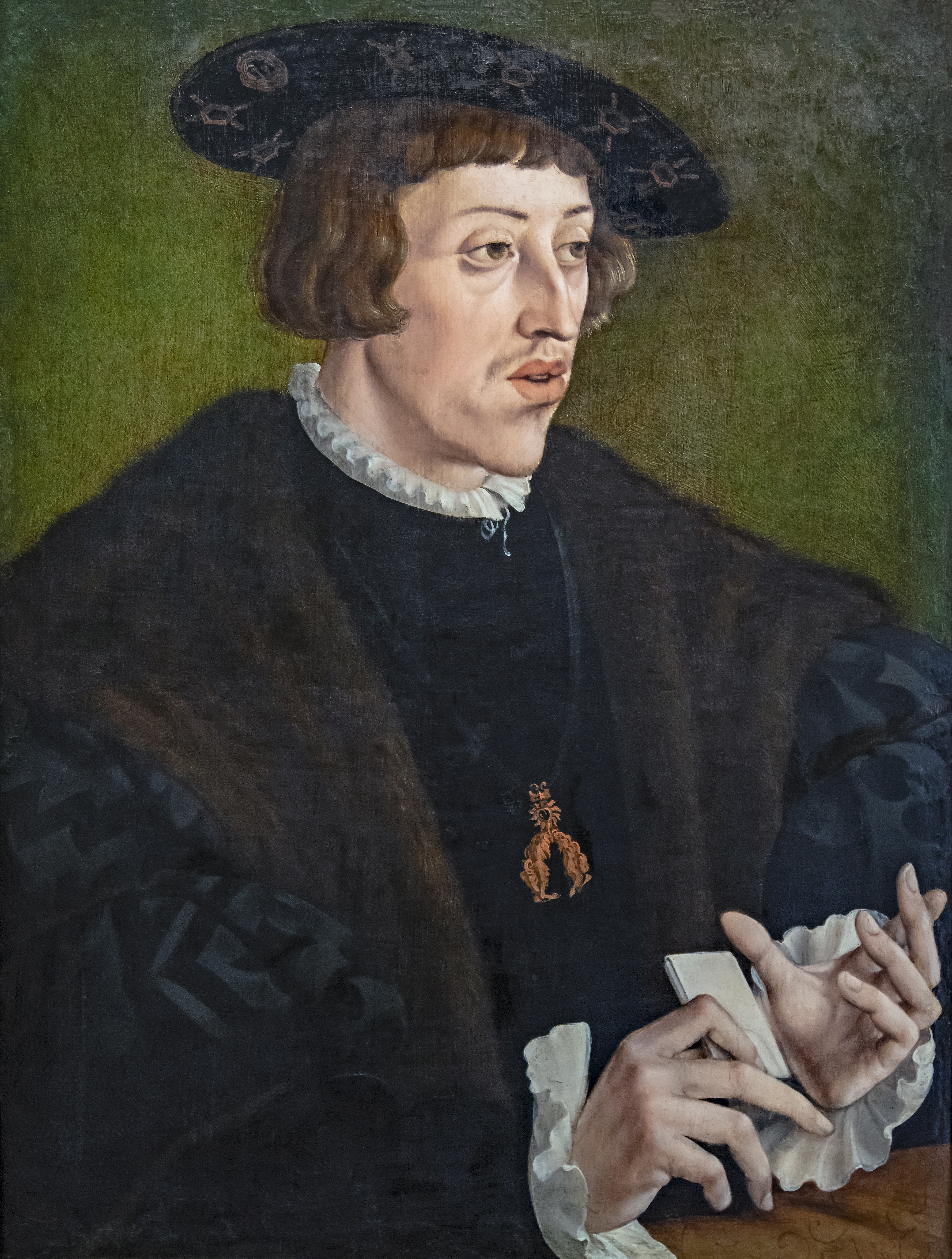 Depicted person: Ferdinand I, Holy Roman Emperor – king of Bohemia and Hungary